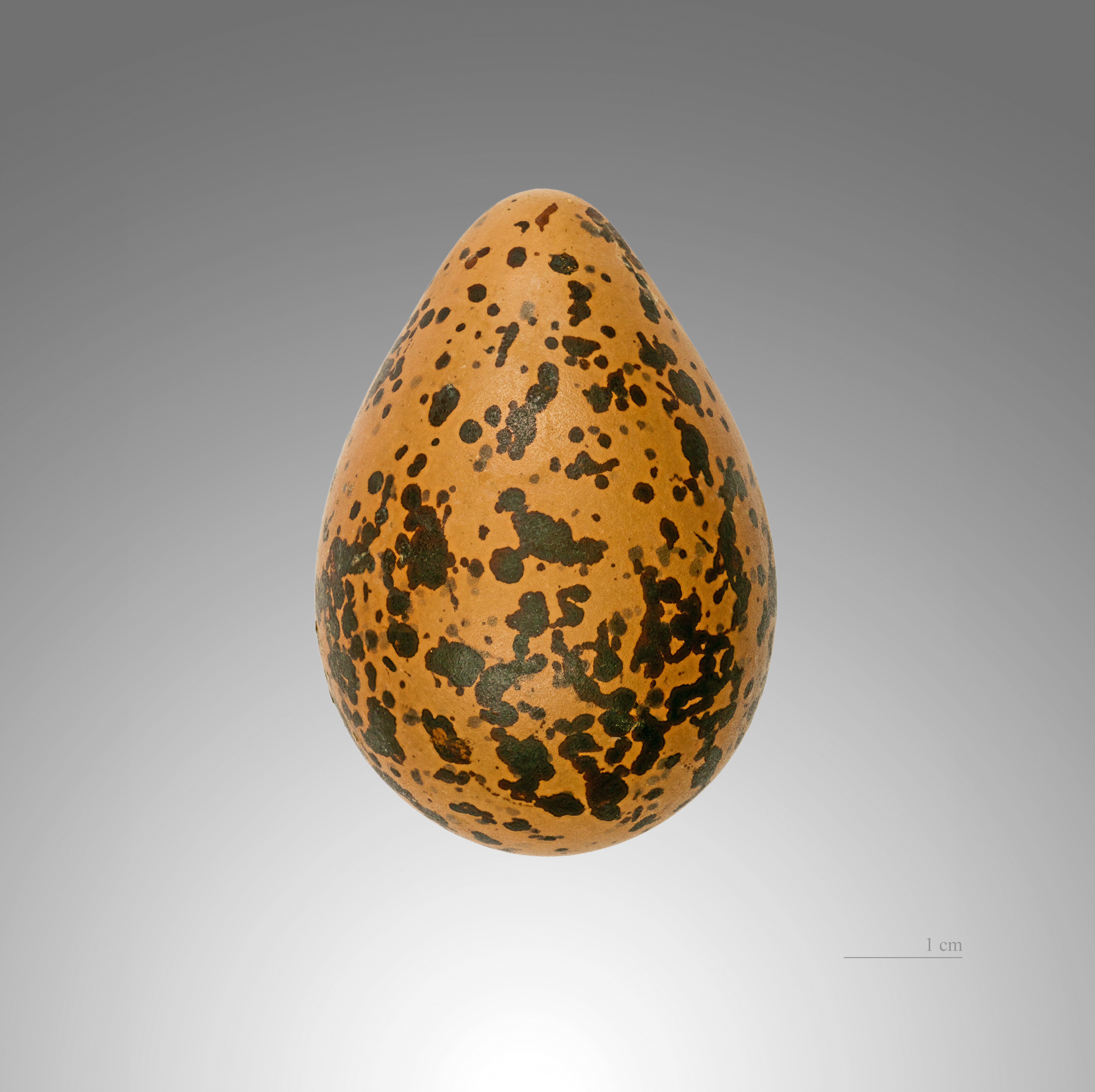 Egg of Grey Plover. Collection of Jacques Perrin de Brichambaut.